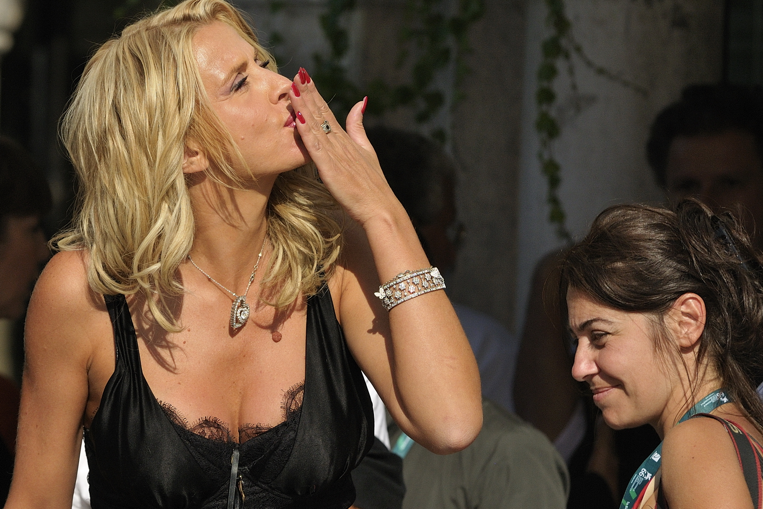 Valeria Marini at The 66th Venice Film Festival